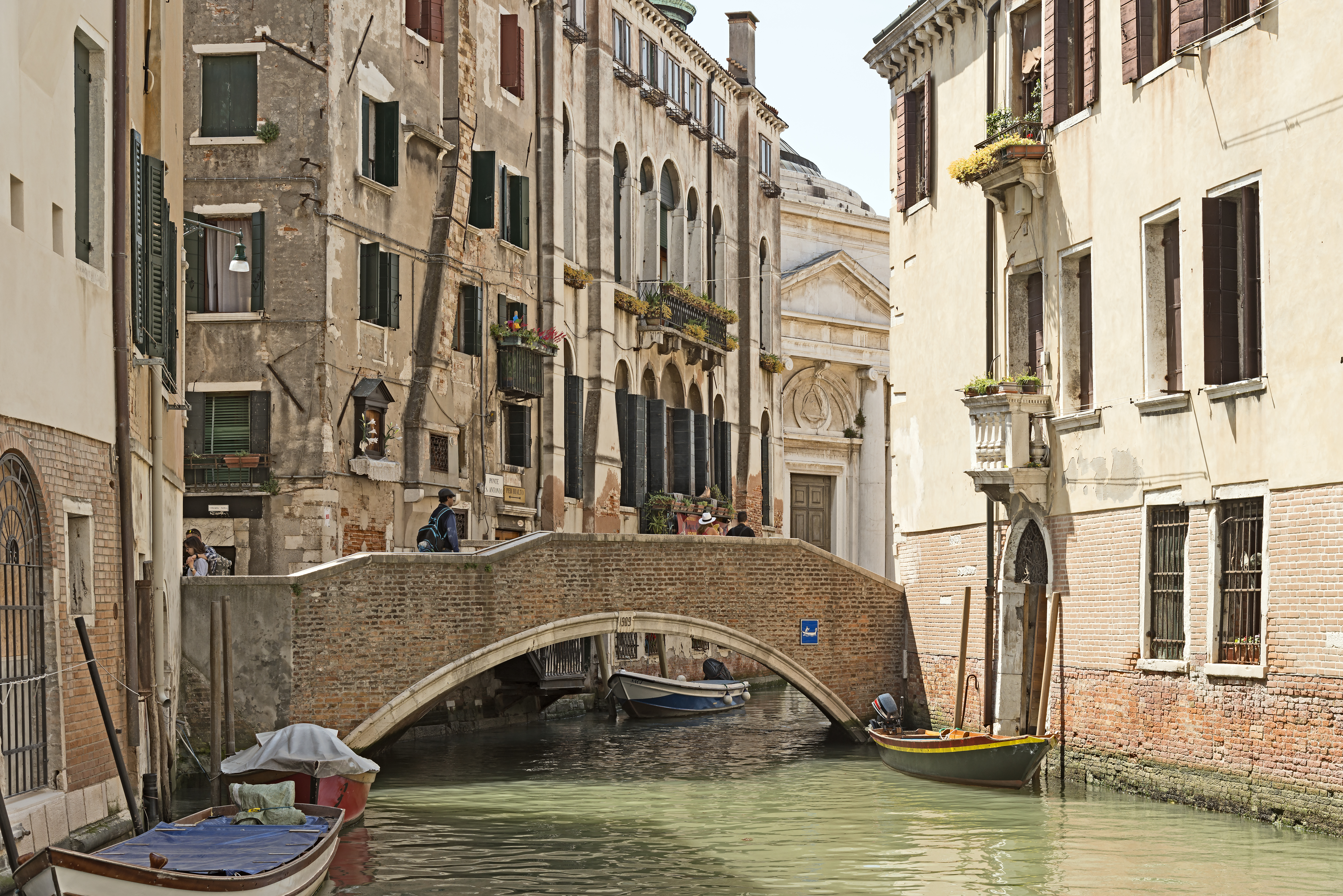 Ponte San Antonio on Rio della Maddalena - Venice